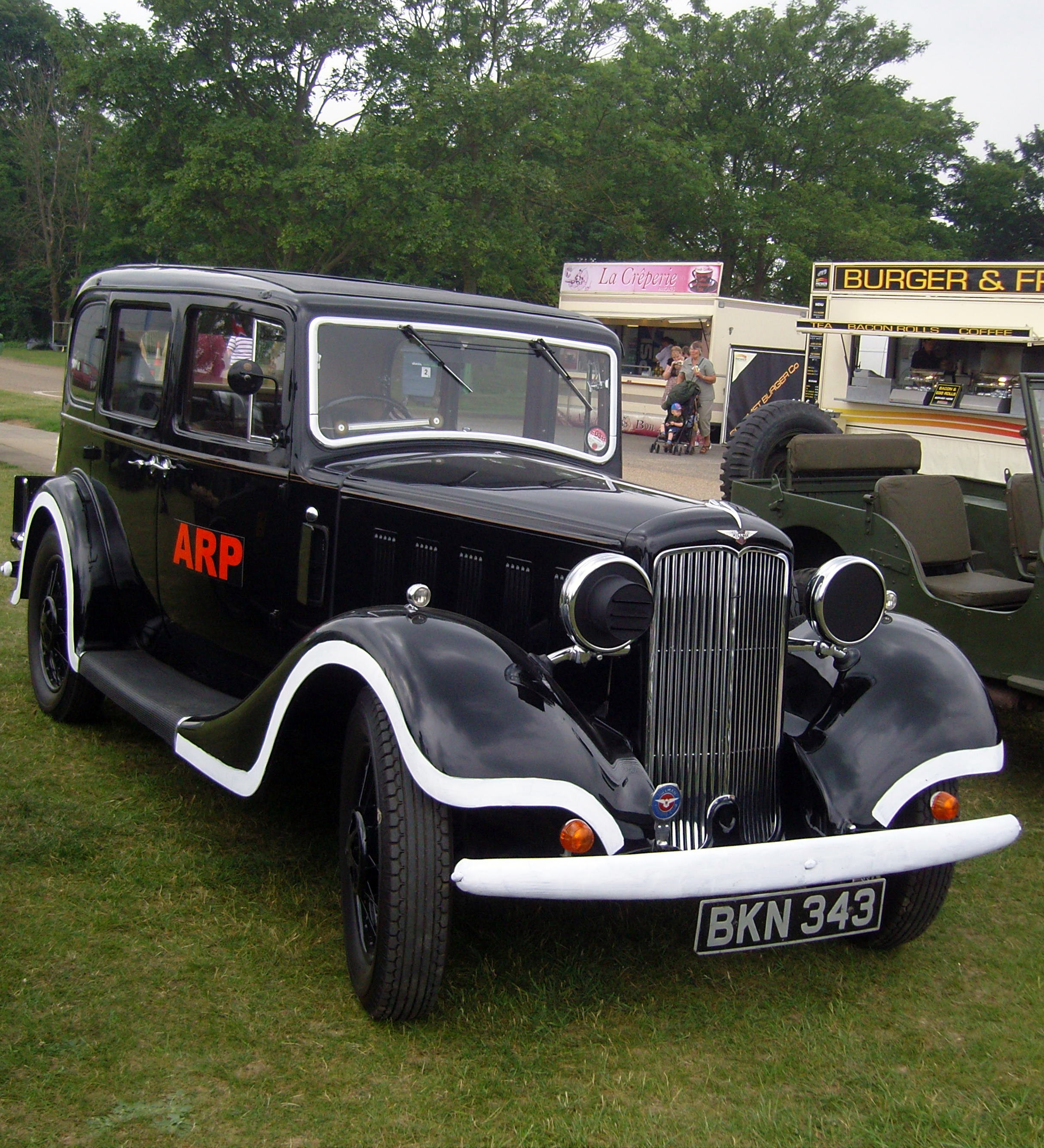 1935 Hillman sixteen (DVLA) first registered 3 January 1935 extra in Poirot tv